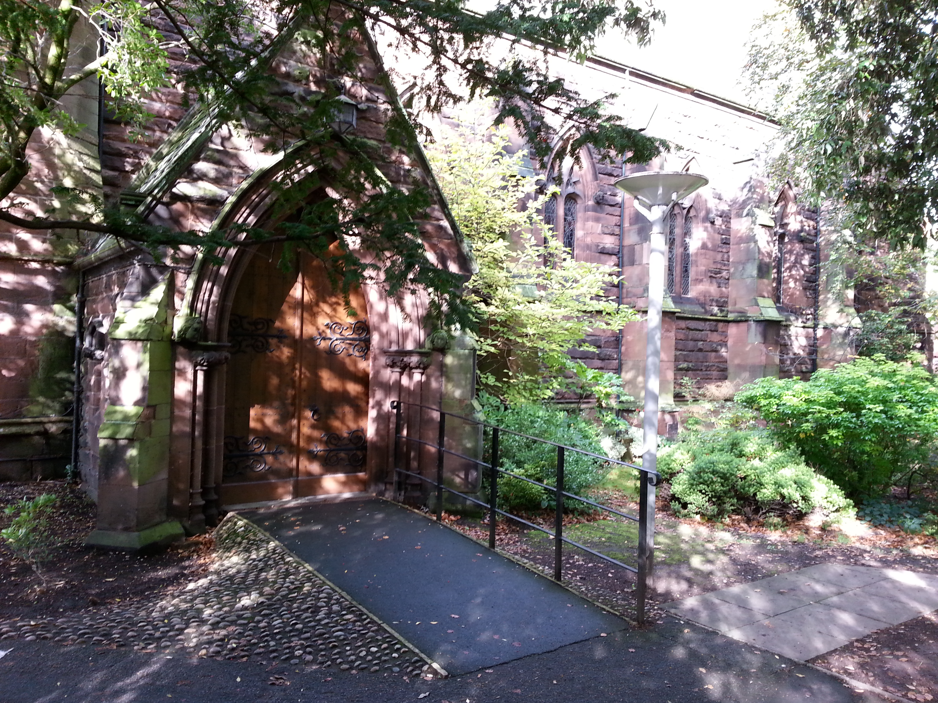 This photo was taken at the University of Chester .